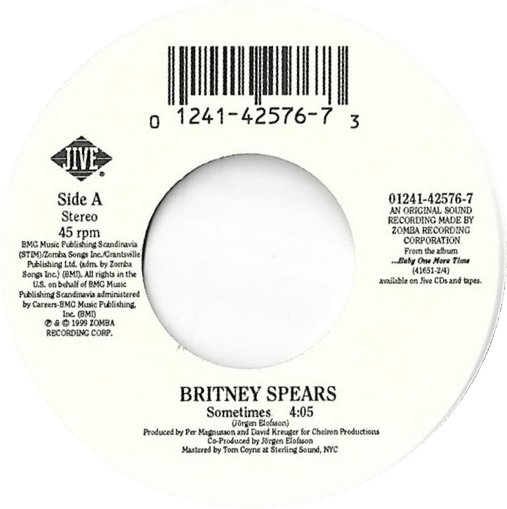 US vinyl release of "Sometimes" by Britney Spears